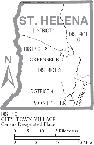 Map of St. Helena Parish, Louisiana, United States with municipal and district boundaries